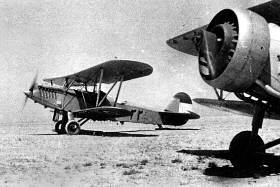 A Polikarpov preparing to take off. Ten Polikarpov R-5 reconnaissance aircraft were acquired from the Soviet Union in 1933, but this type was not very popular in Iran.